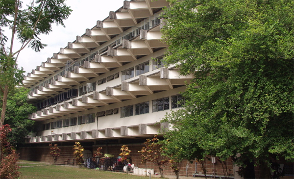 Engineering Building -- Chiamg Mai University